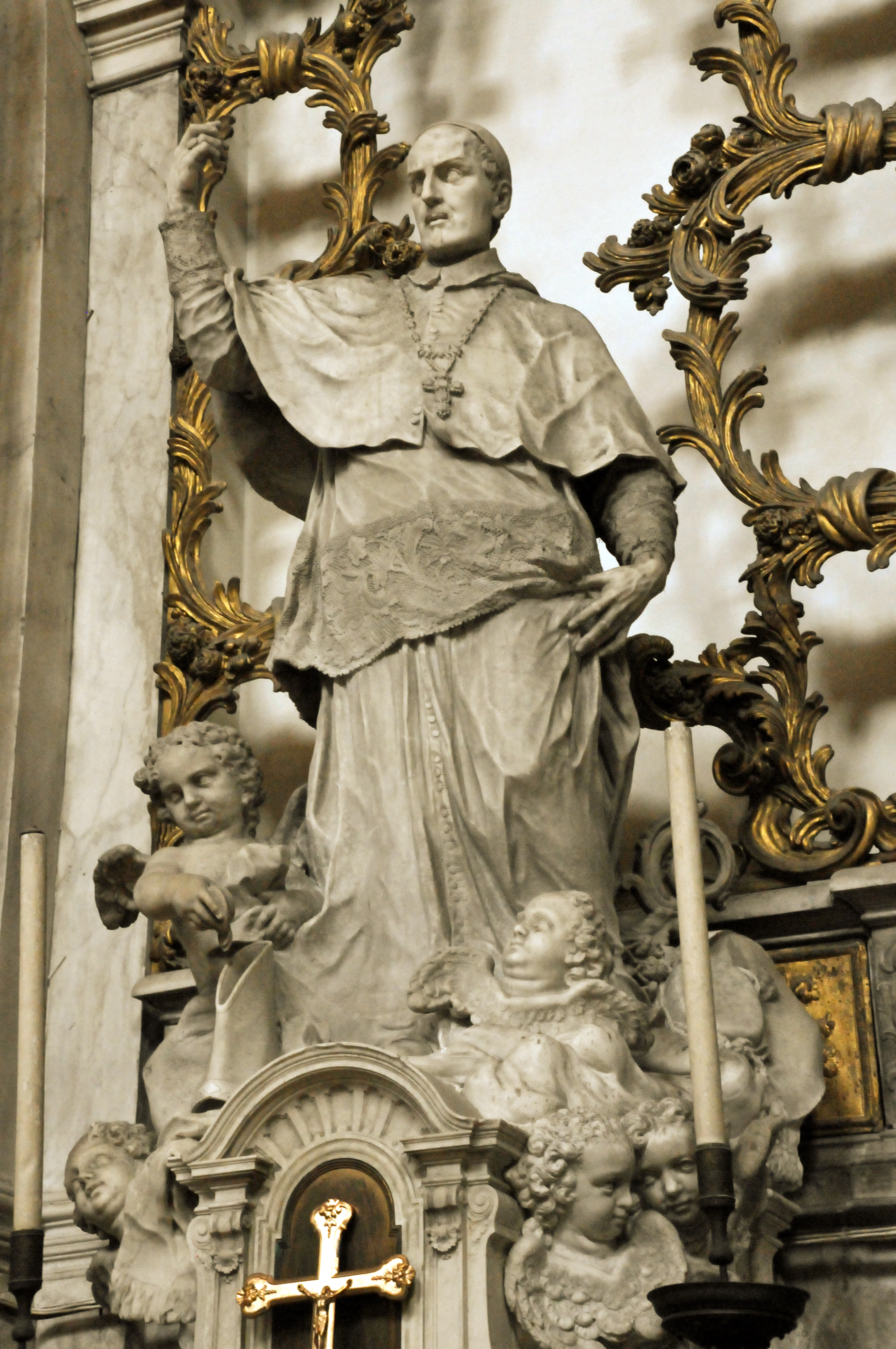 San Gregorio Barbarigo di Giovanni Maria Morlaiter in the church of Santa Maria del Giglio in Venice, Italy